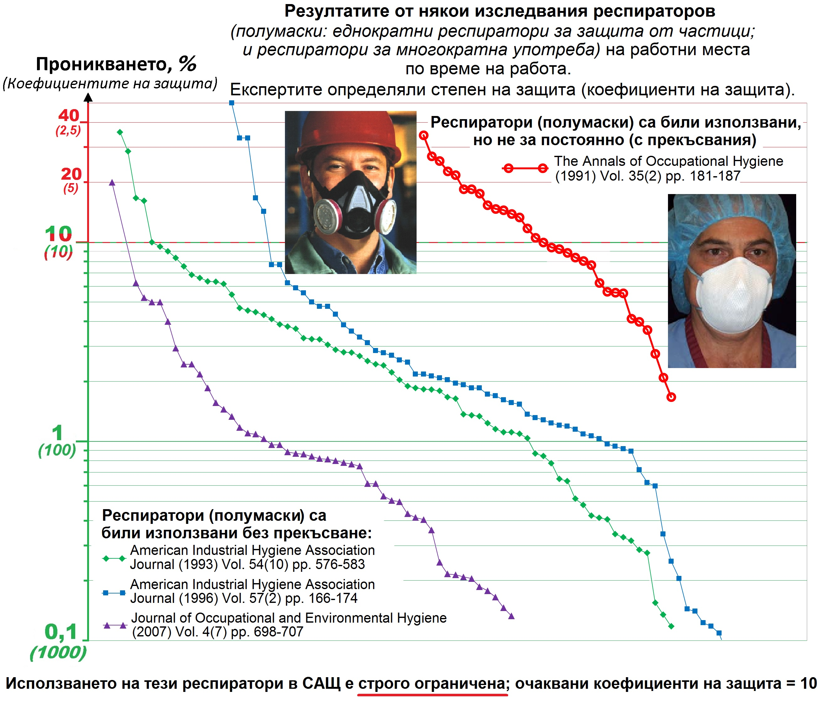 Negative pressure half mask respirators (elastomeric, and filtering facepieces) with HEPA filters; and with N95 & P2 (FFP2) filters. Measurement of protection factors of negative pressure half masks at the workplaces revealed a risk of decrease in protective properties to a very small values. Therefore, the use of such respirators has been limited to the values 10 100 PEL in the United States.